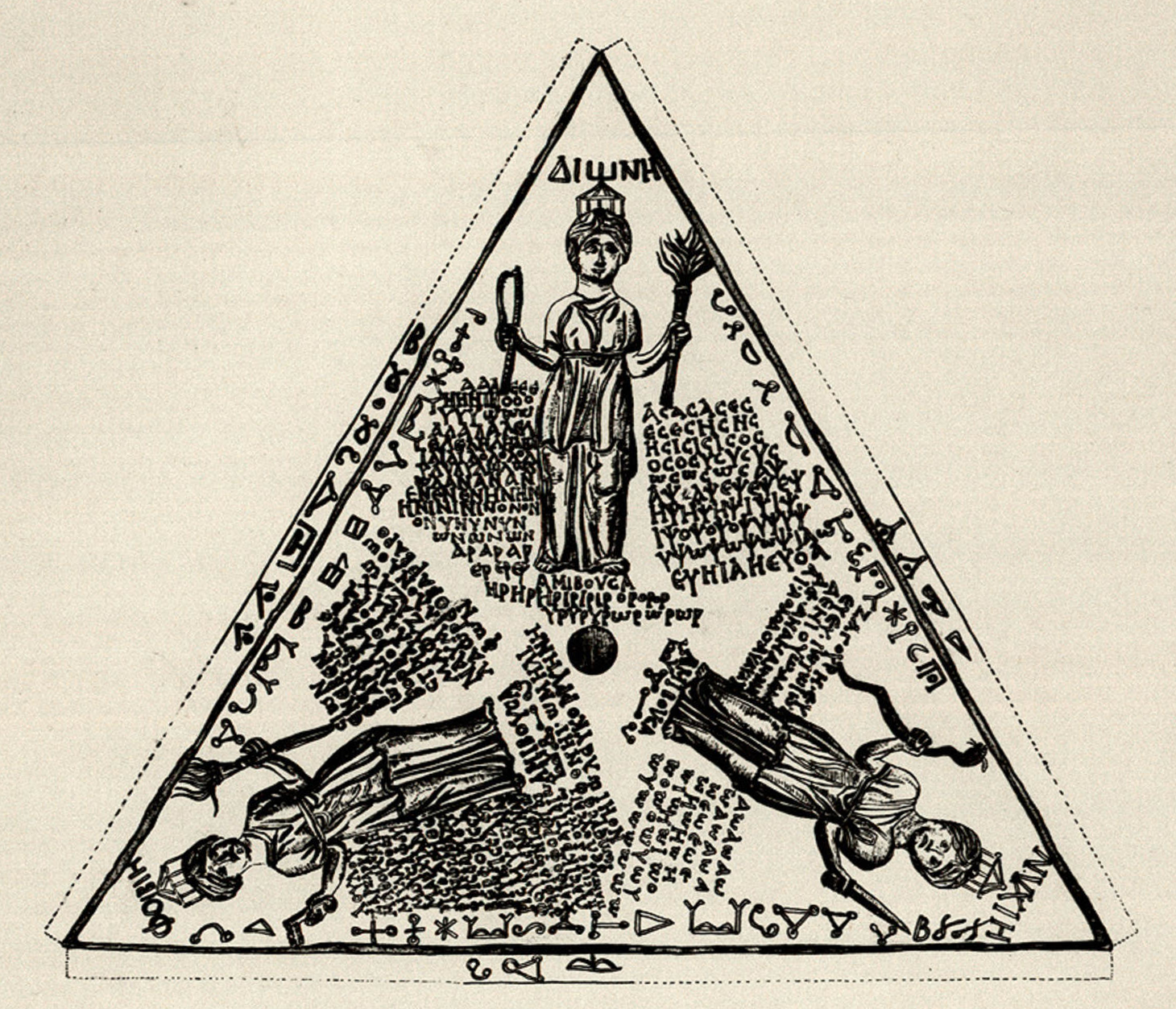 Drawing of a bronze tablet found at Pergamon. It depicts three crowned goddesses labeled as ΔΙΟΝΗ (Dione), ΦΟΙΒΙΗ (Phoibie or Phoebe), and ΝΥΧΙΗ (Nychie), each surrounded by dense inscriptions, mostly untranslatable syllables for incantation (voces magicae). The inscription around Phoebe invokes Persephone, Melinoë, and Leucophryne. The lettering dates the inscription to the first half of the 3rd century AD. Esoteric symbols are inscribed along the edges. The center hole suggests that the tablet was suspended over a surface and used for divination.